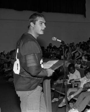 Terry Anthony, football player speaks to school children about drugs - Tallahassee, Florida.